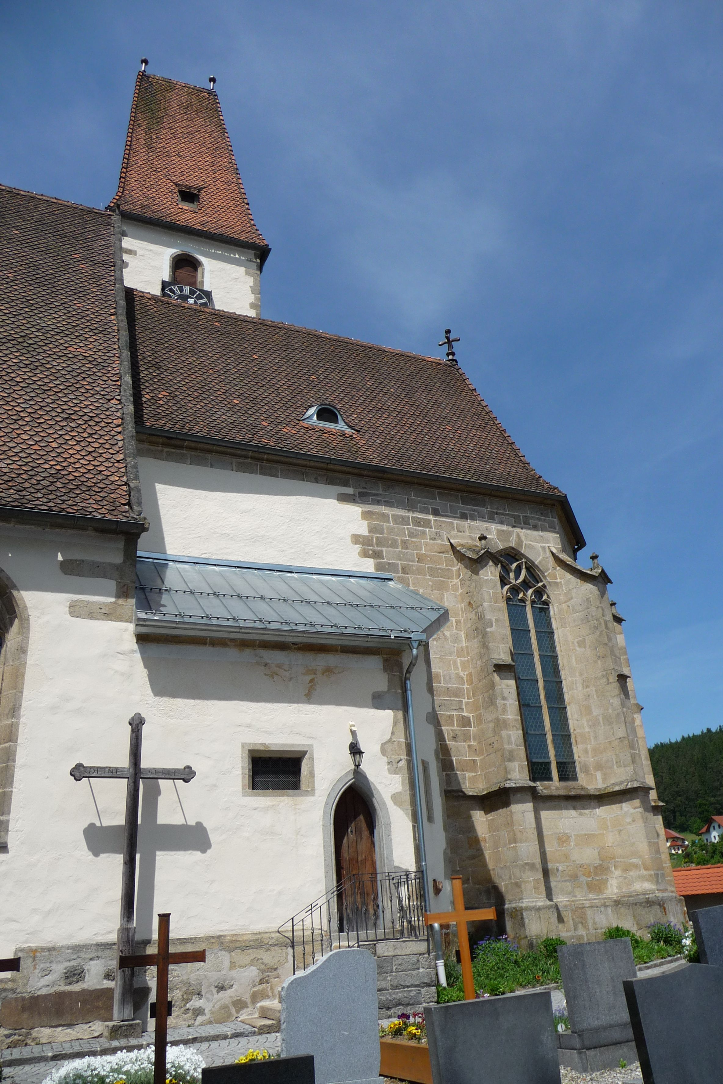 Parish Church Hirschbach im Mühlkreis